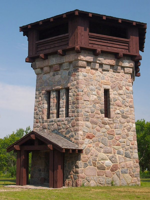 Water/observation tower built by the Works Progress Administration, Lake Bronson State Park, Minnesota, USA